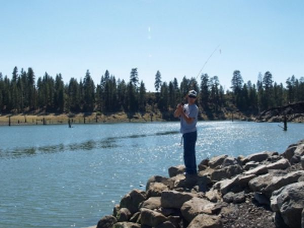 Fisherman along the shore of Gerber Reservoir in Klamath County, Oregon